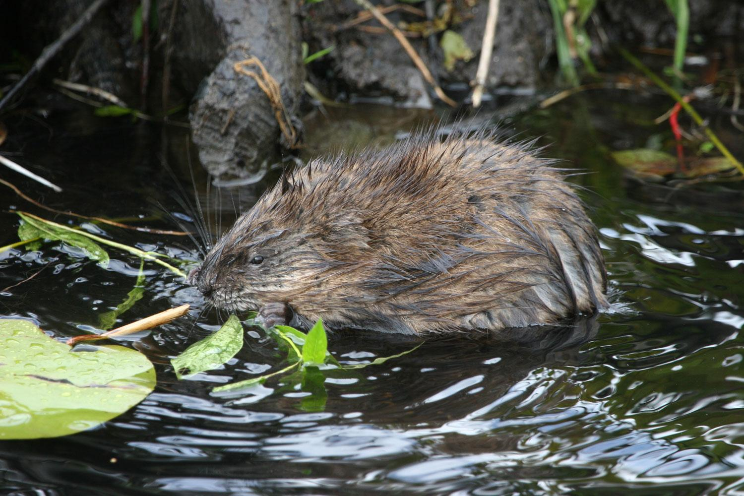 Muskrat, Piper Point Regional Park, Burnaby, British Columbia